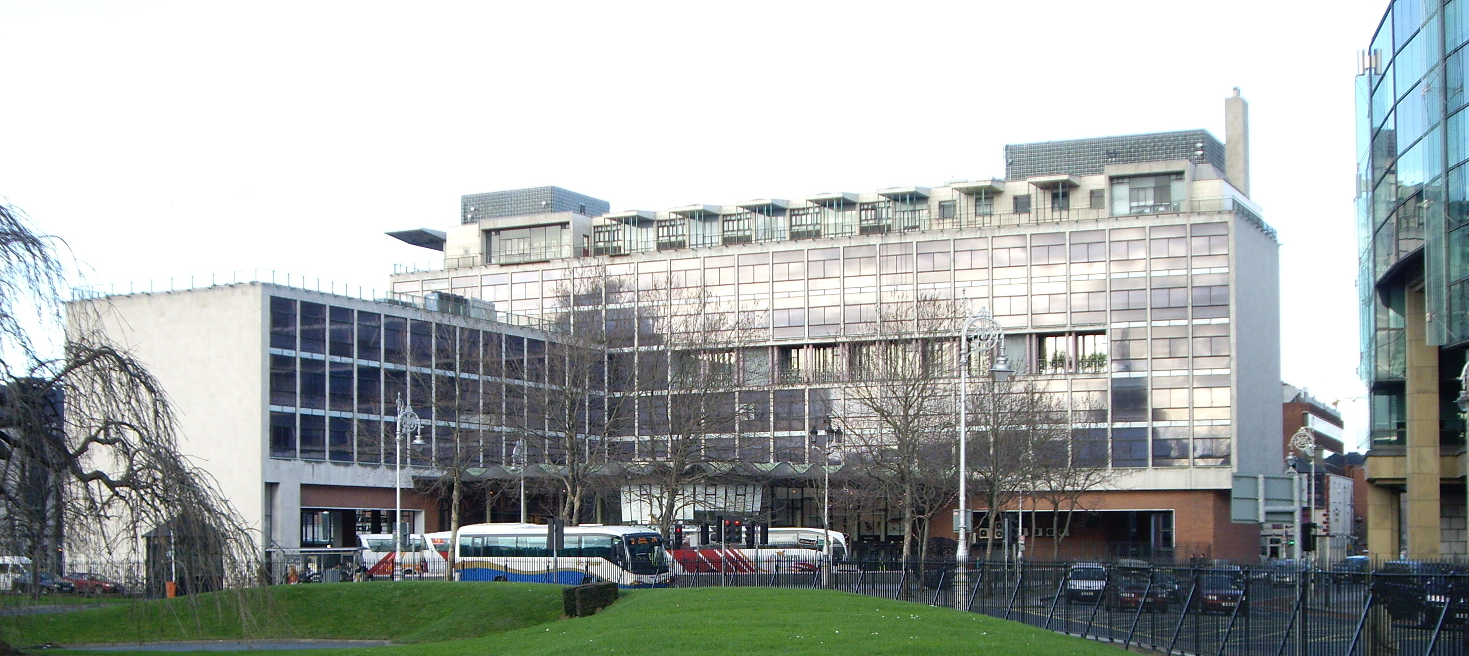 Busaras, from north side of Talbot Memorial Bridge